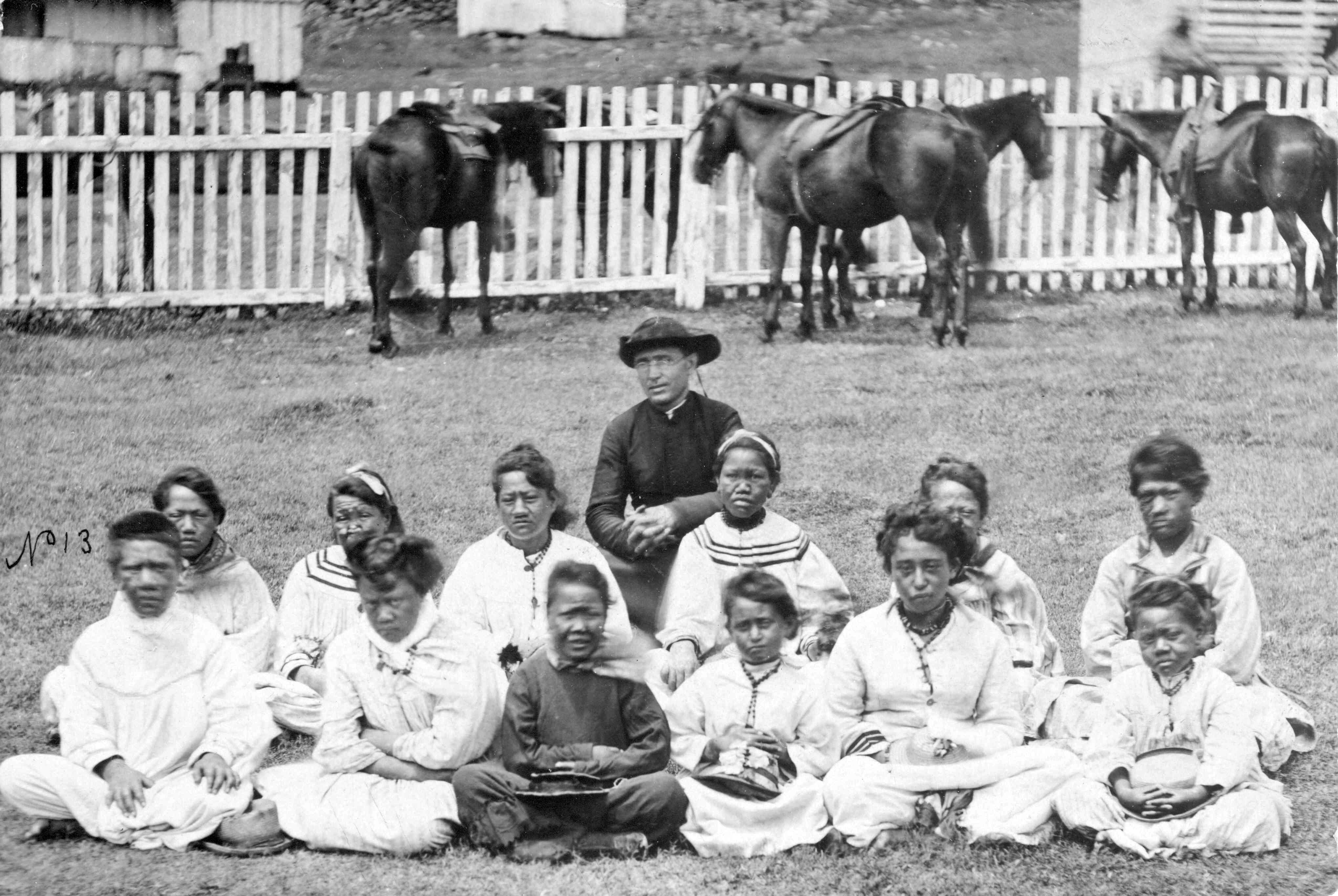 Cathedral of Our Lady of Peace archived image of Father Damien with the Kalawao Girls Choir, at Kalaupapa, Moloka'i, circa 1878. The photo was recently used in the project "The Separating Sickness" in 1997